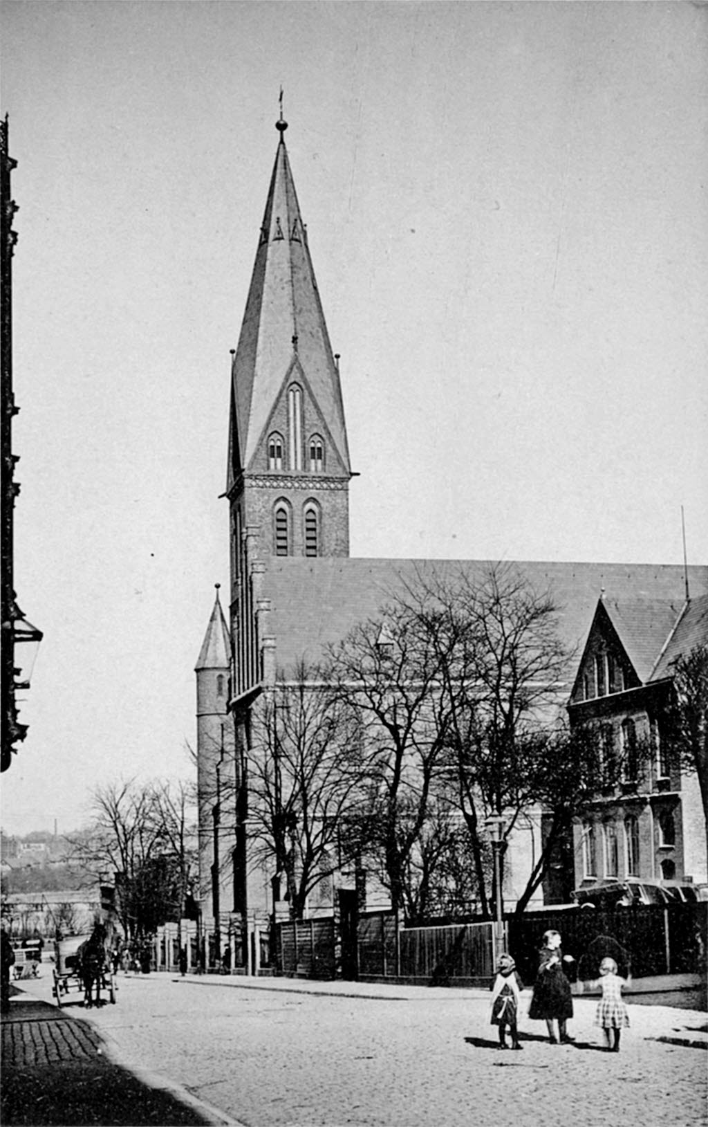 St. Nicholas Church, three-nave brick basilica in the Gasstraße (later Rathausstraße) in Kiel